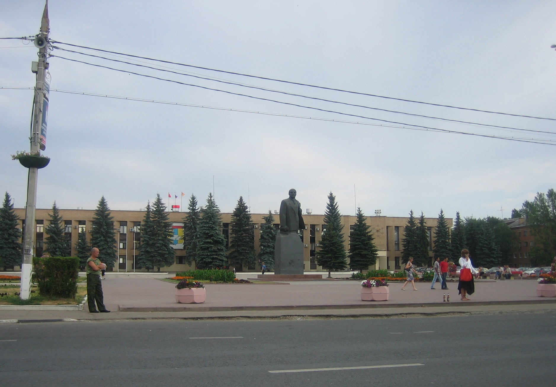 Lenin place in Domodedovo